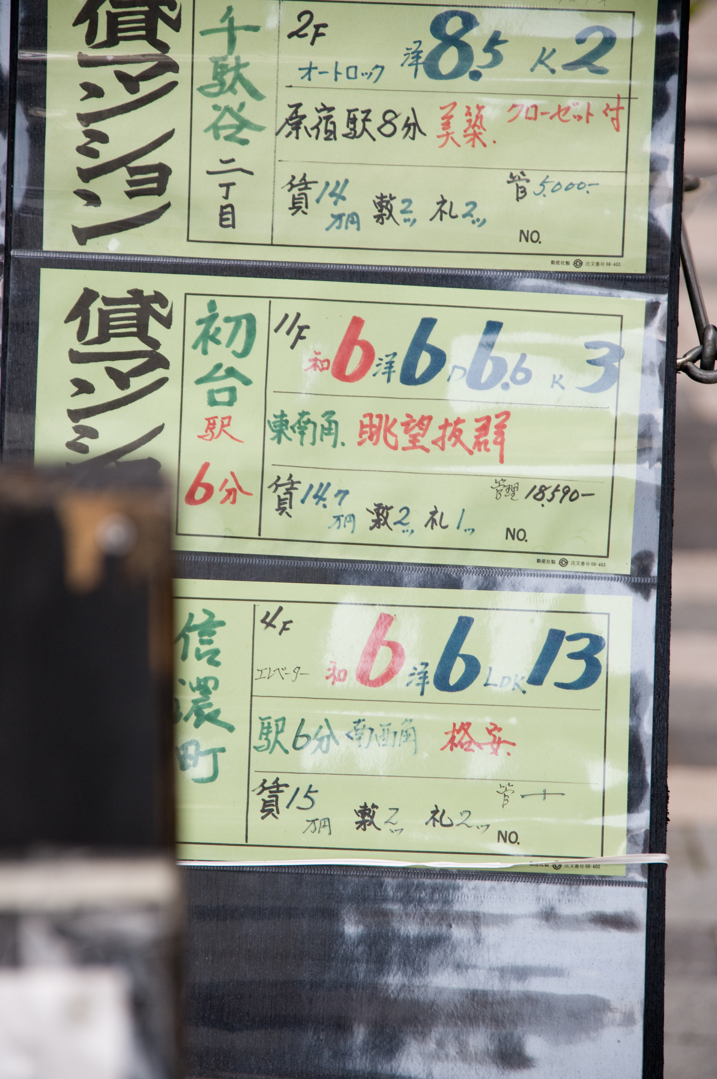 See where this picture was taken. [?]